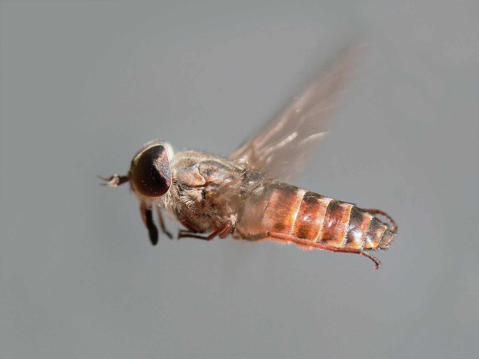 Horse fly (known as March fly in Australia), of the family iTabanidae which contains approximately 3,000 species of horse fly worldwid. Pictured here in flight.